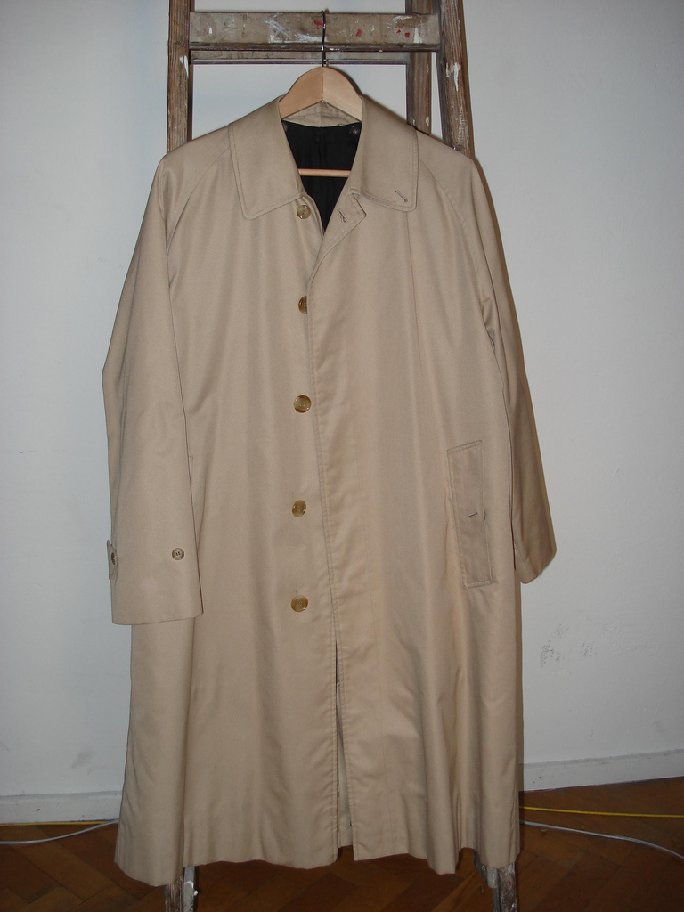 Trenchcoat by Burberrys